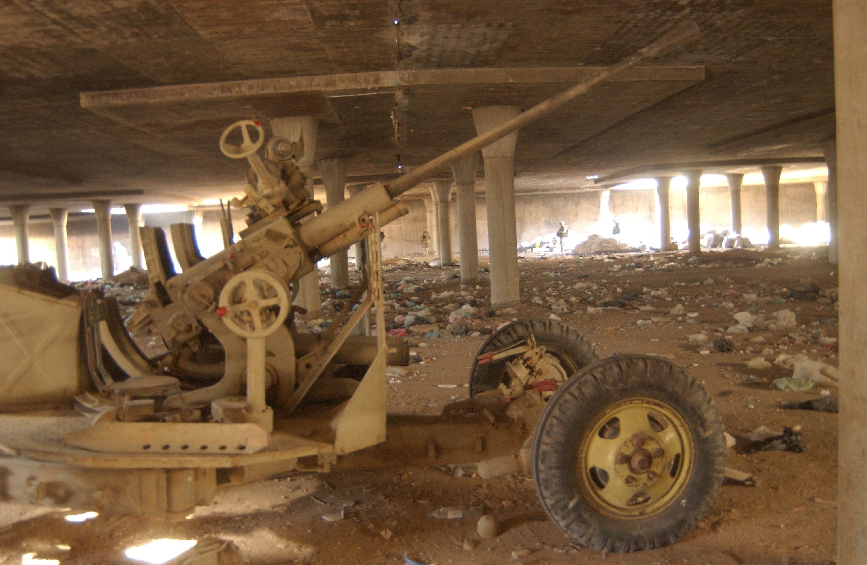 An anti-aircraft gun is part of the weapons found by U.S. Marines in a parking garage near the Imam Ali Shrine in An Najaf, Iraq, on Aug. 26, 2004.